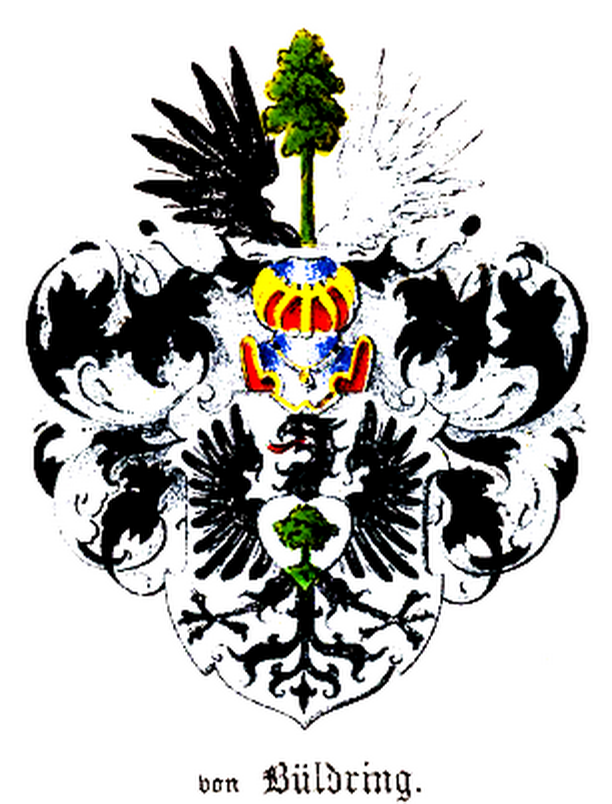 Coat of Arms of family Bueldring